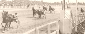 Highland Fling was an outstanding New Zealand Standardbred pacer, that is shown here winning the 1948 New Zealand Trotting Cup with a handicap of 60 yards.